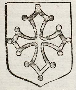 Cross cleché